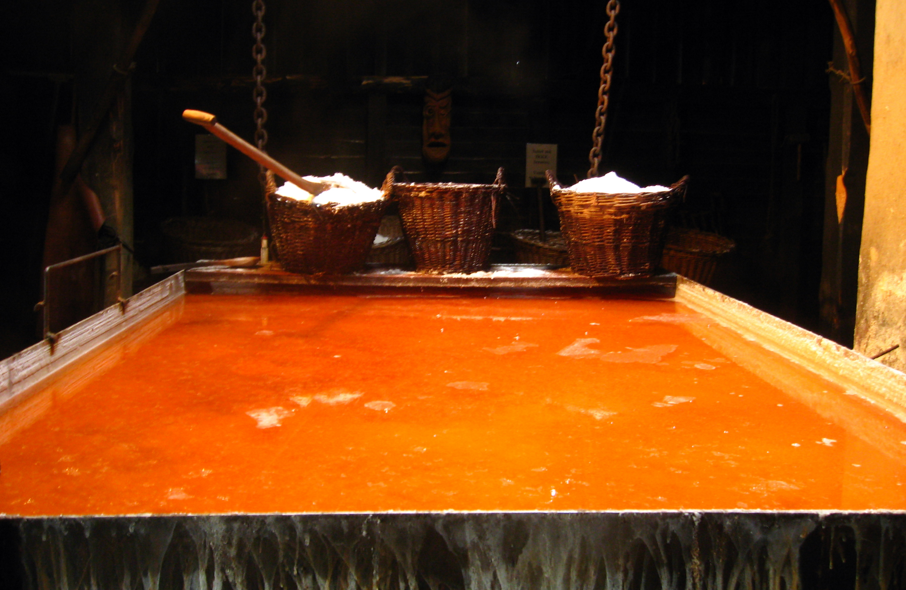 Salt-works on Læsø, Denmark